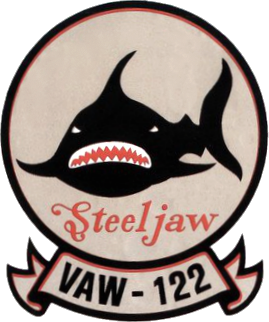 Patch of Airborne Early Warning Squadron 122 (United States Navy).